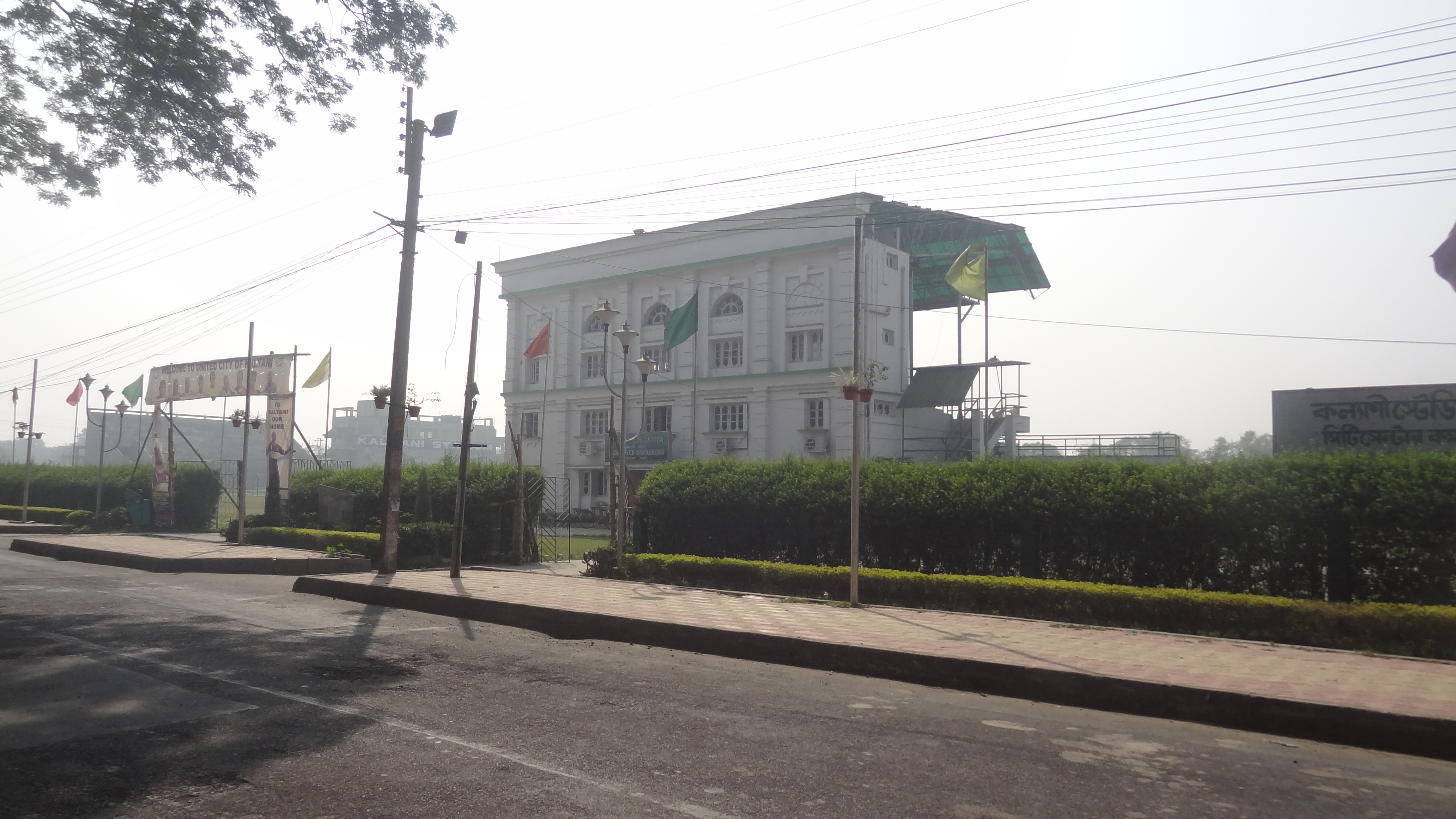 Kalyani Stadium has emerged as an alternative venue for I-League football matches in Kolkata